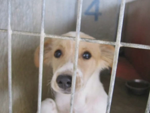 Tnu Lahayot Lihyot - Let the Animals Live